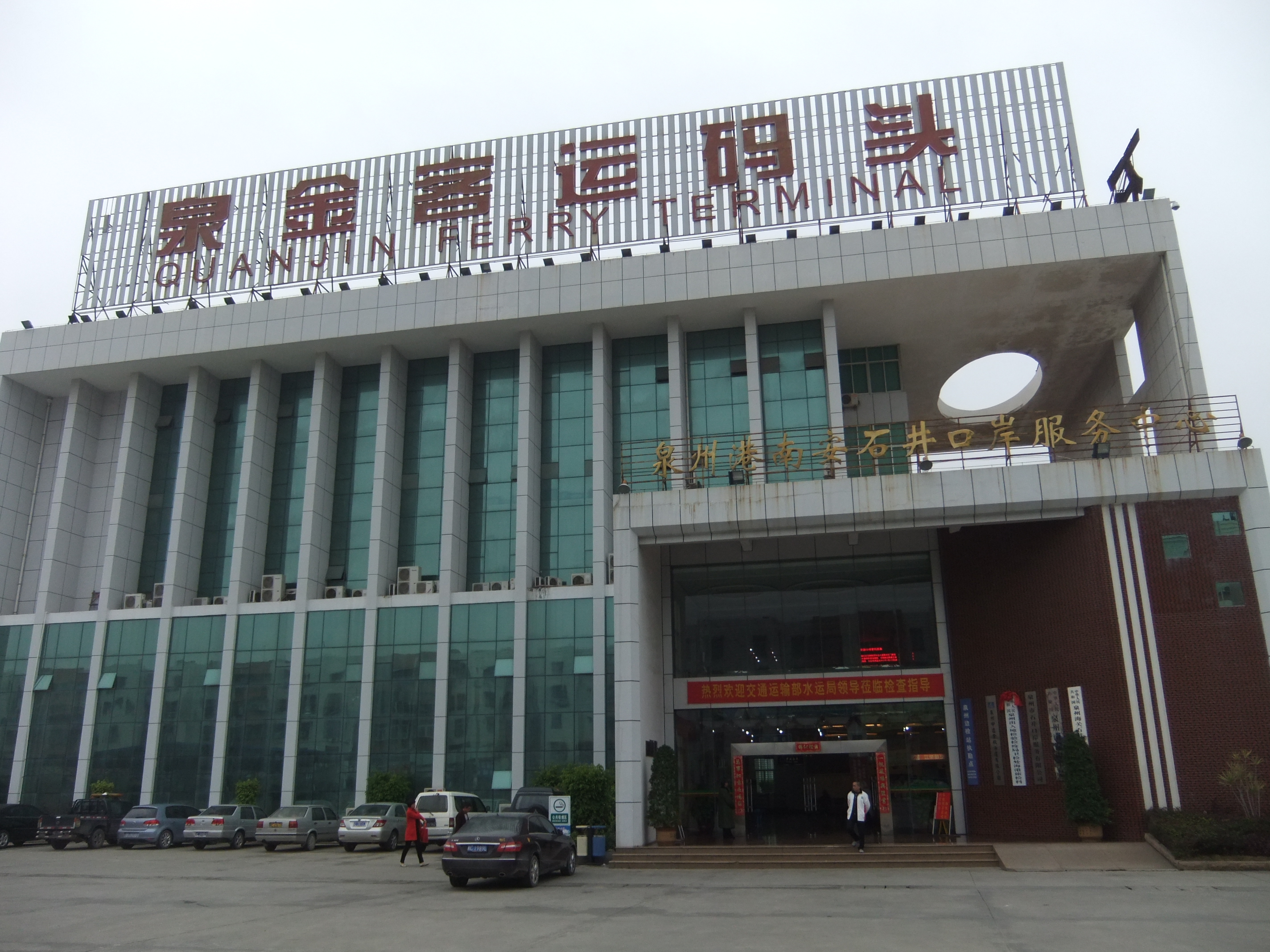 Quanjin Ferry Terminal - A terminal for Quanzhou (Shijing) - Jinmen ferries in Shijing Town, Nan'an County, Quanzhou.